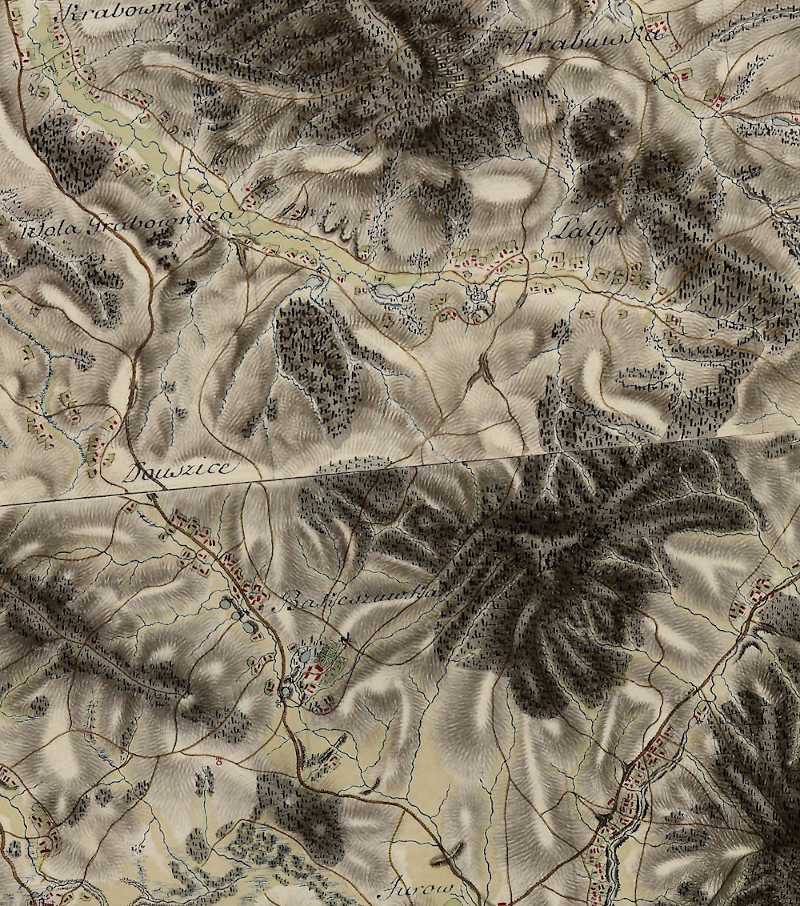 Pakoszówka and Lalin by Sanok on the so called Miege's Map